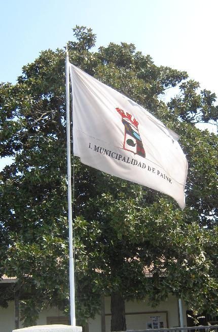 Major Office Paine (Chile)